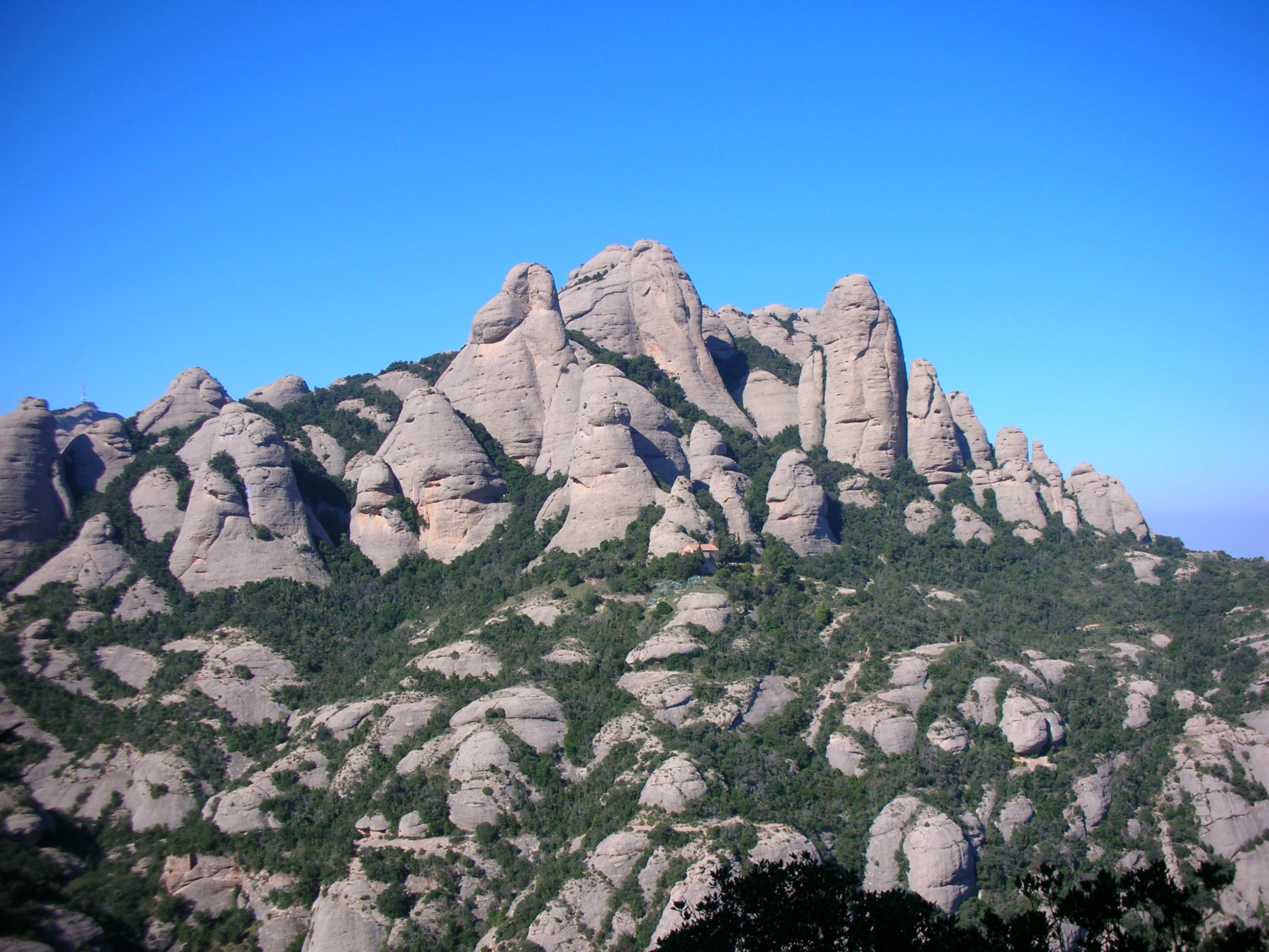 Montserrat, view of Sant Salvador or Tebaida region from Sant Joan